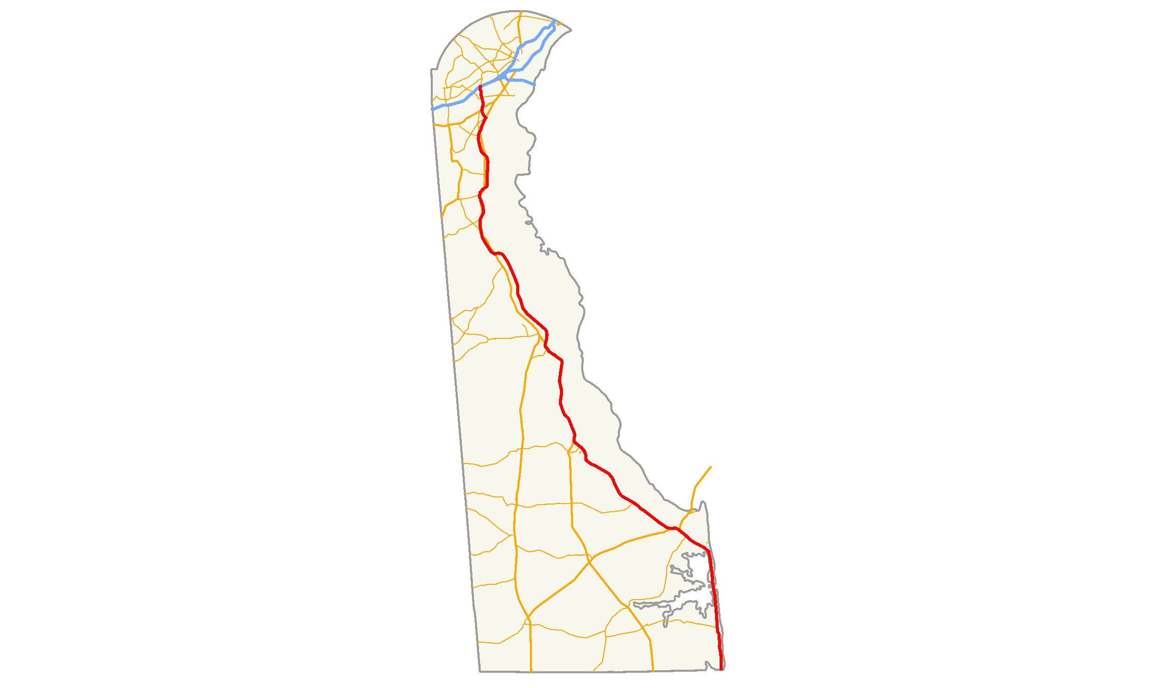 Route map of Delaware Route 1 — a Delaware state route.